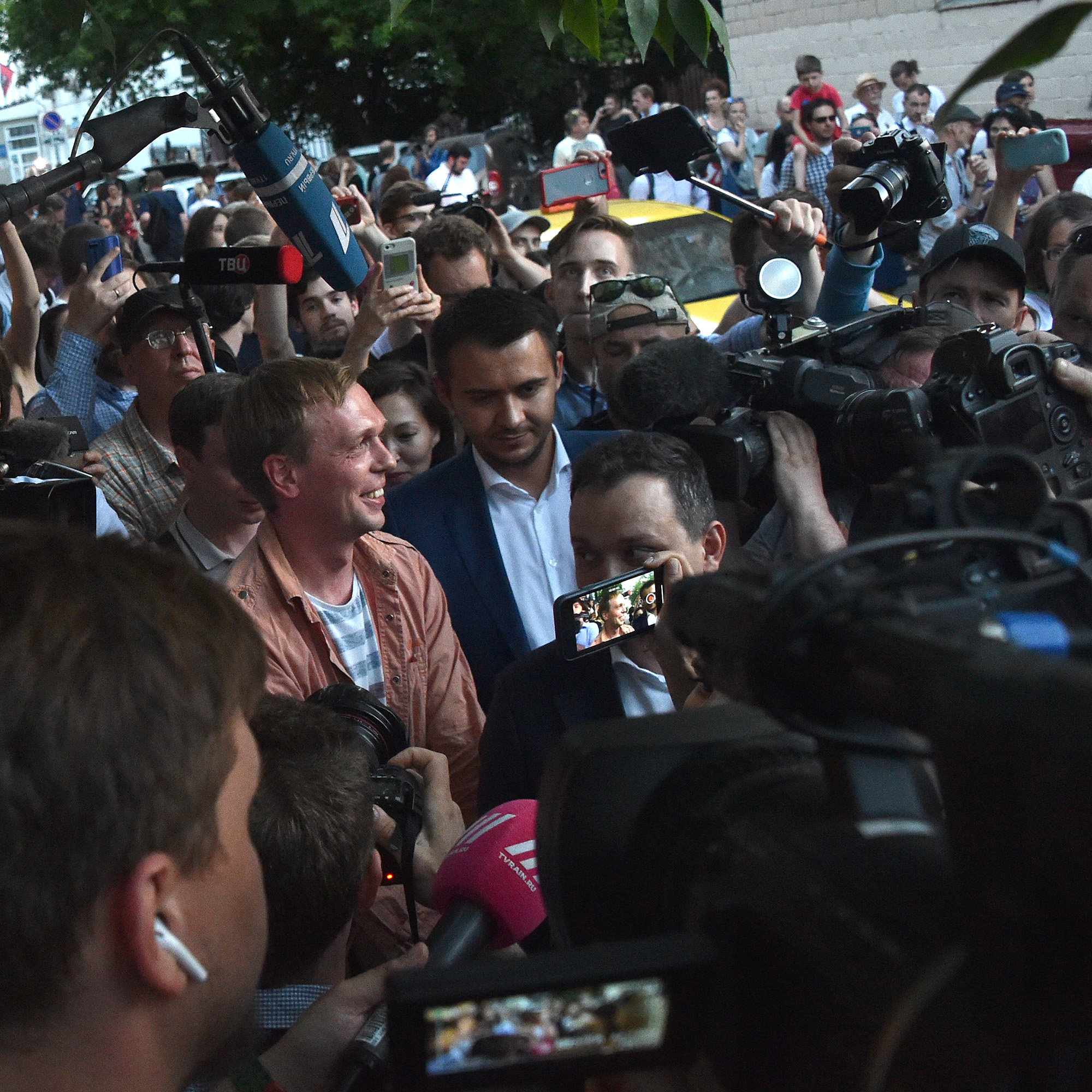 Russian police droped drug charges against this investigative journalist and free him from house arrest on June 11, in a rare climbdown by law enforcement following a public outcry.